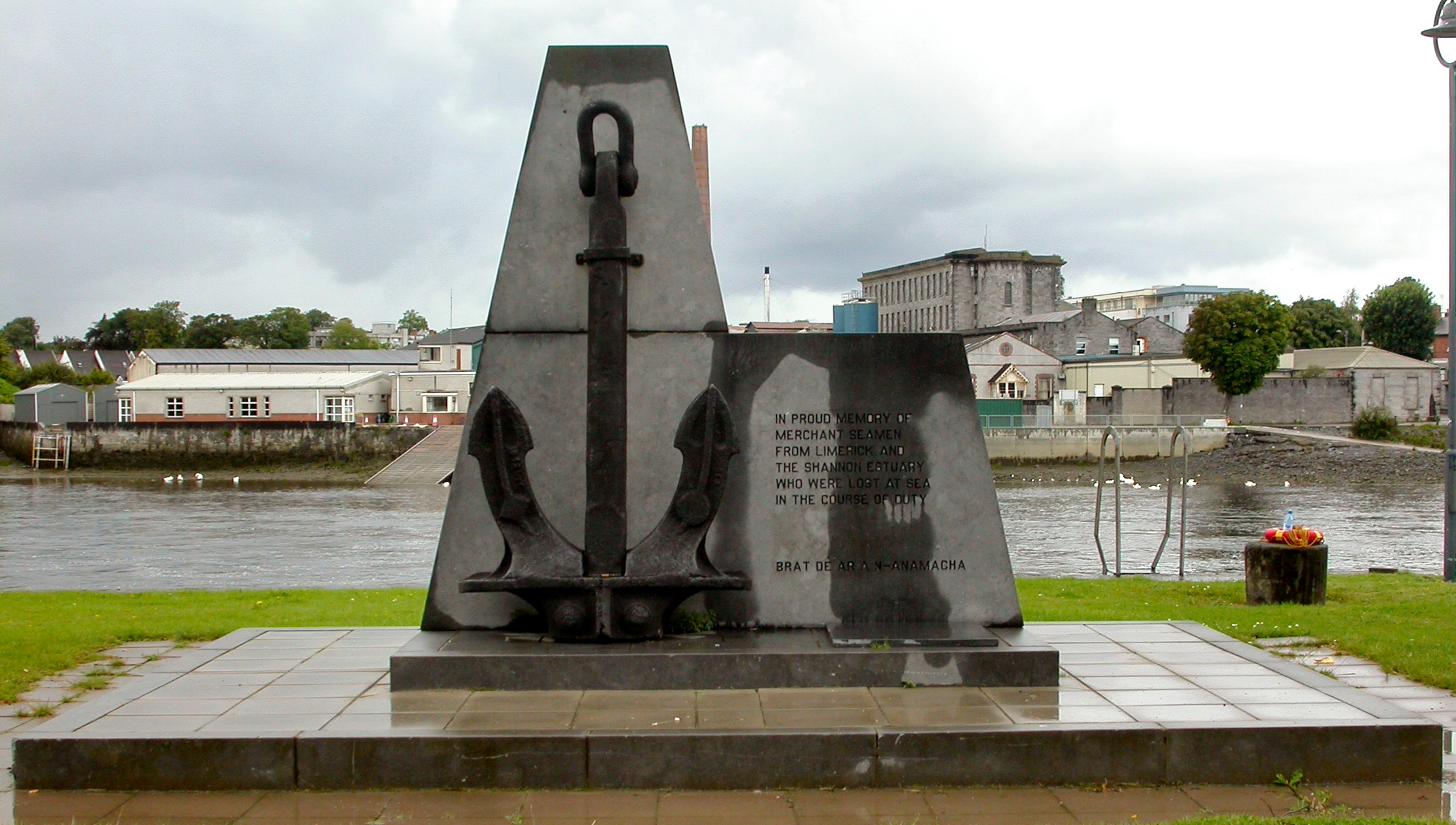 Leacht cuimhneachain na mairnealach, Luimneach